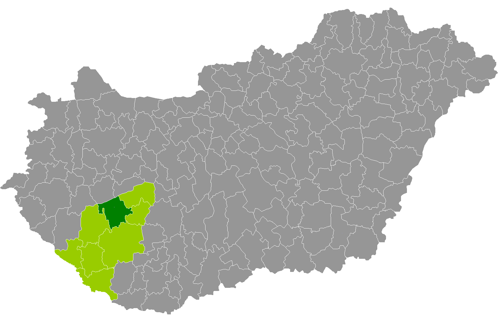 Location of Fonyód District, Somogy, Hungary